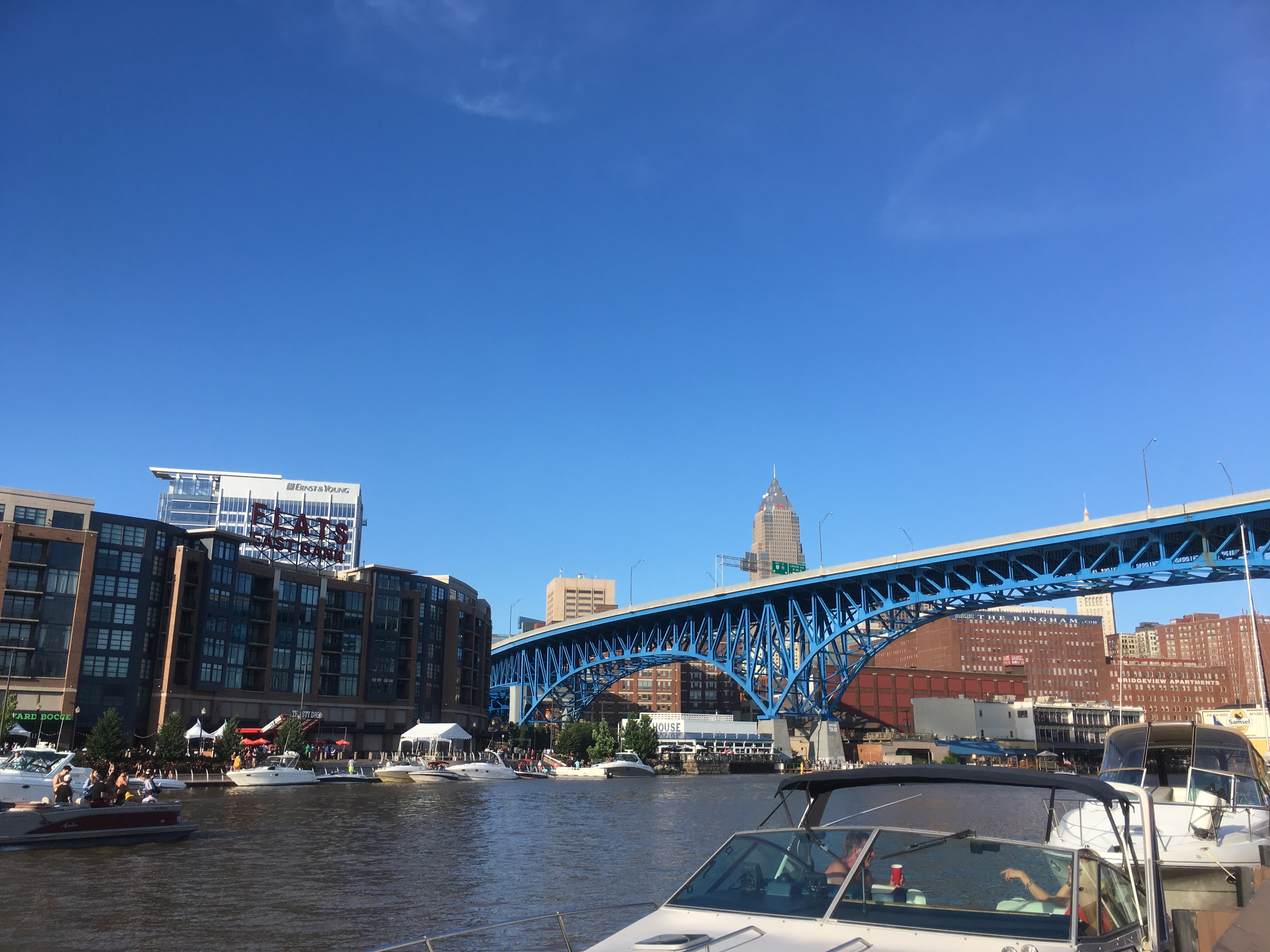 Cleveland Flats, June 2019